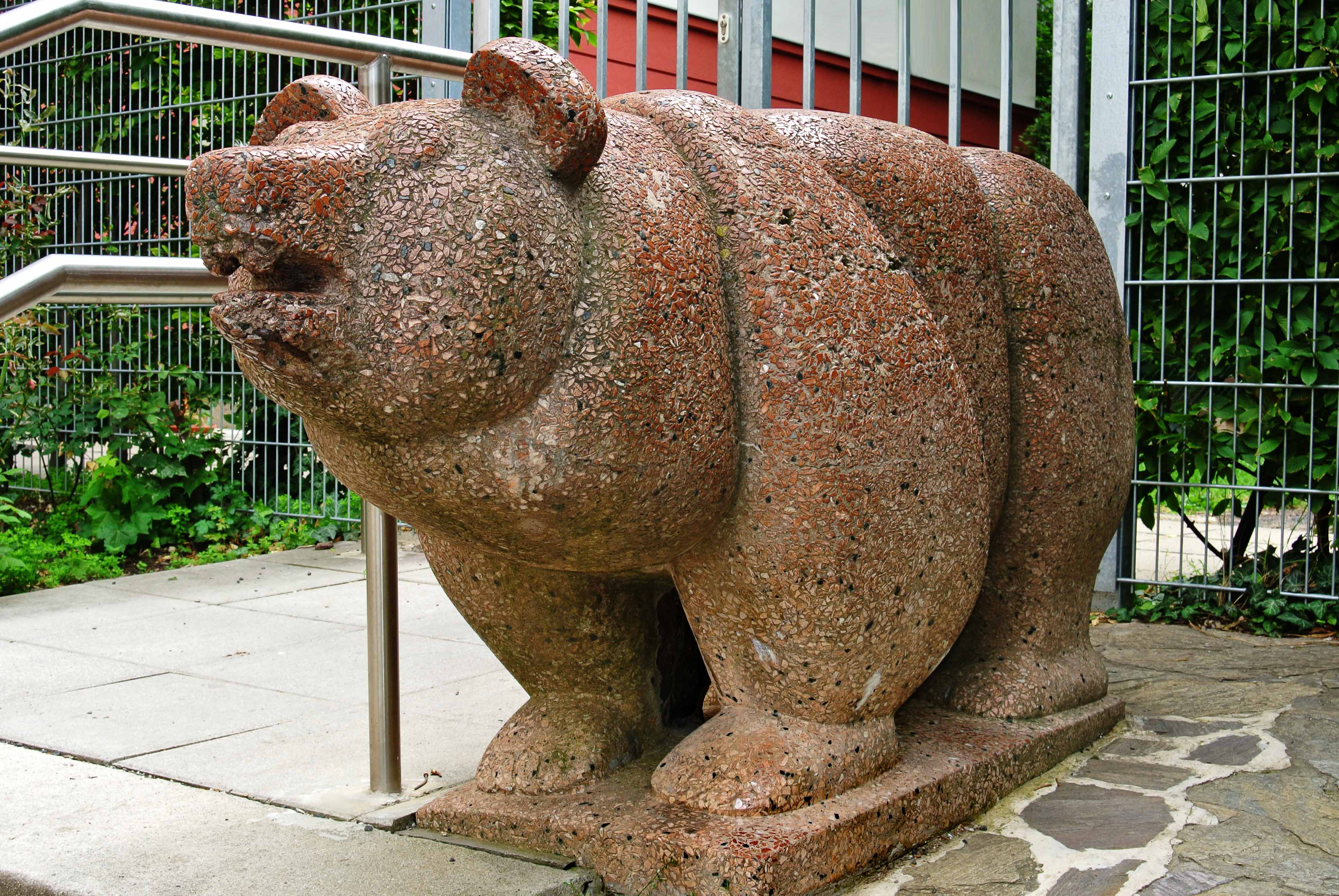 Bear, Artificial stone 1953-1954, work by Prof. Josef Schagerl, akad. Sculptor. The sculpture is located in Vienna 3, Landstraßer Hauptstr 92-94 - Neulinggasse.